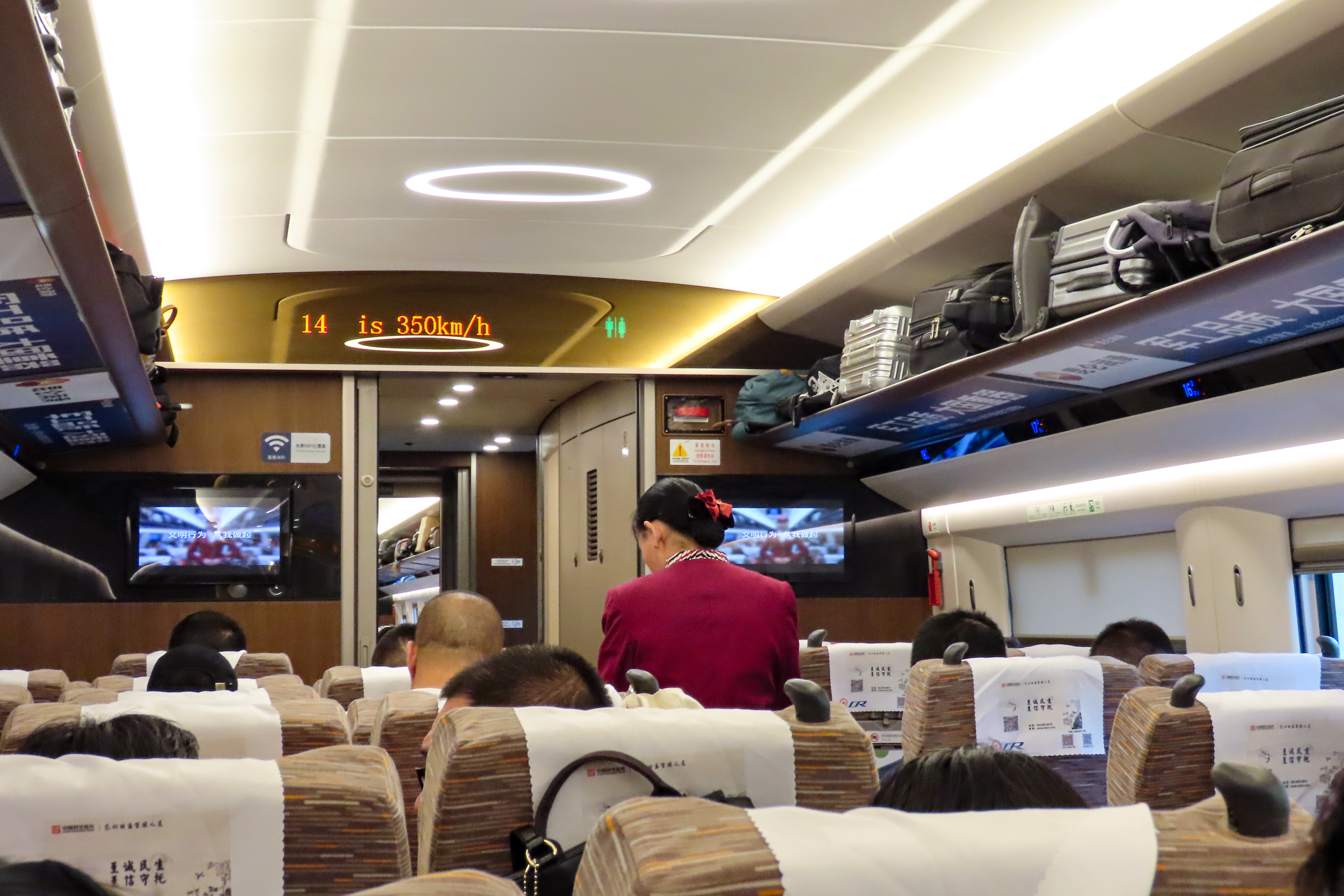 G14 from Shanghai Hongqiao to Beijing South, reaching 350km/h near Zhenjiang.